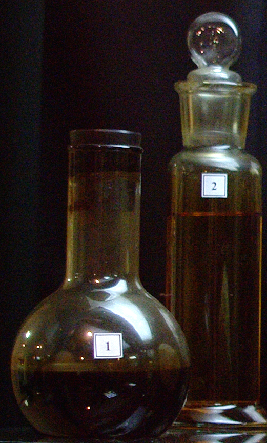 Petroleum and gas condensate